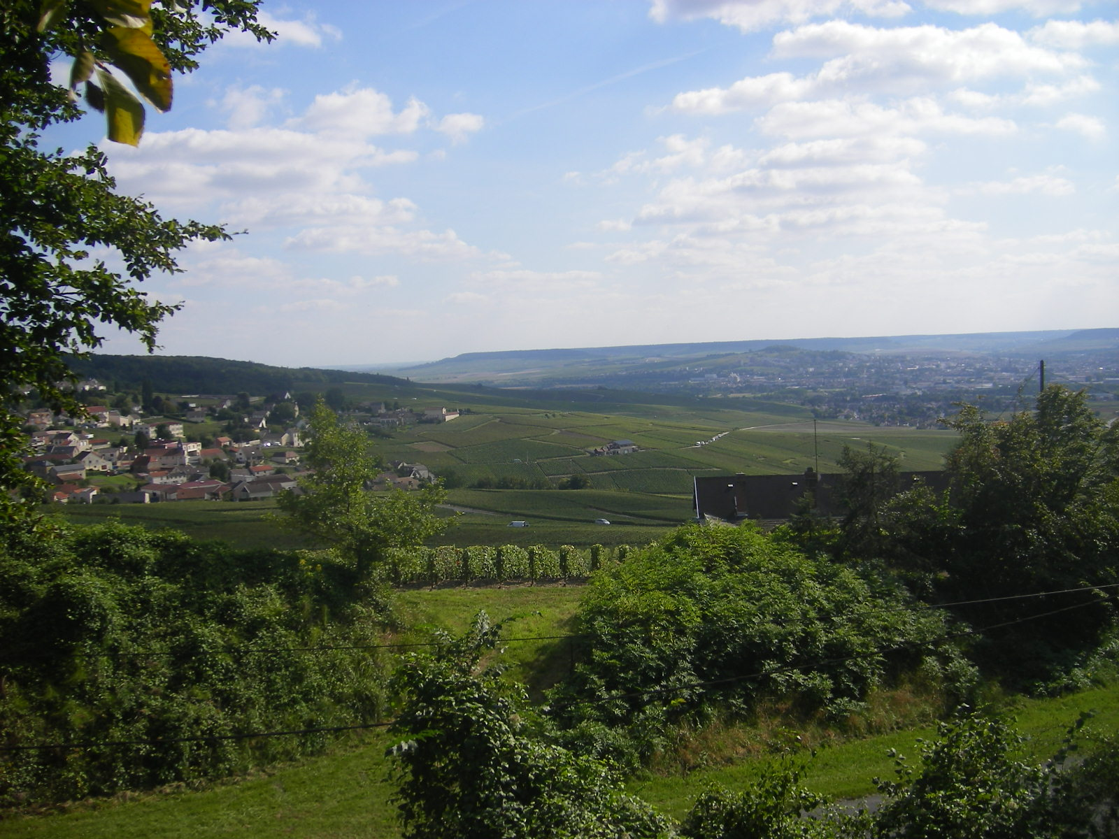 Landscape at the southern edge of Montagne-de-Reims, between Épernay and Saint-Imoges. The picture has been taken close to the D951 road, and the village on the left is Champillon.